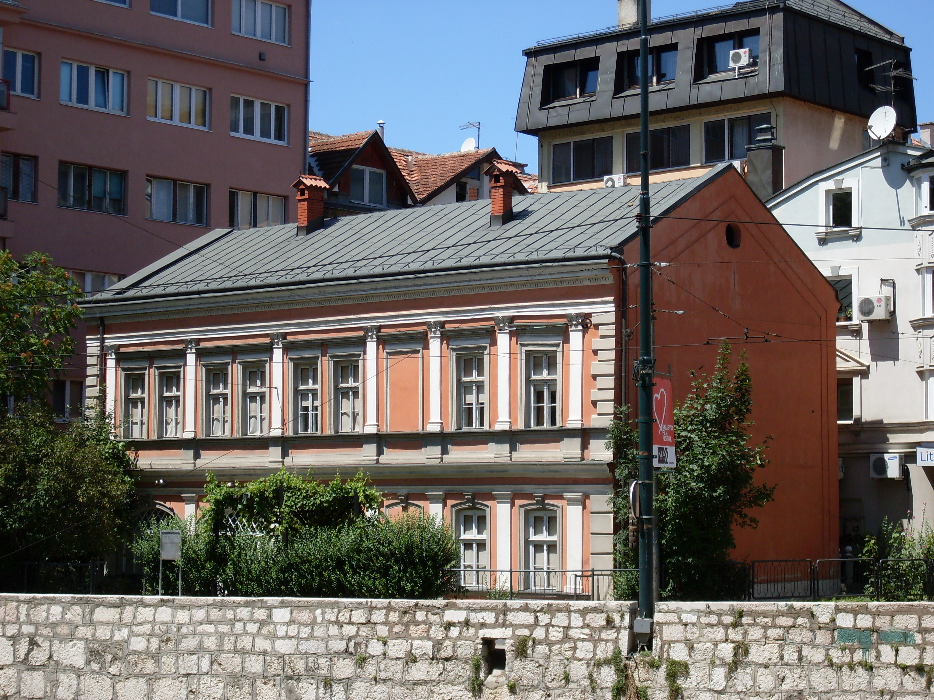 Despić house, Sarajevo